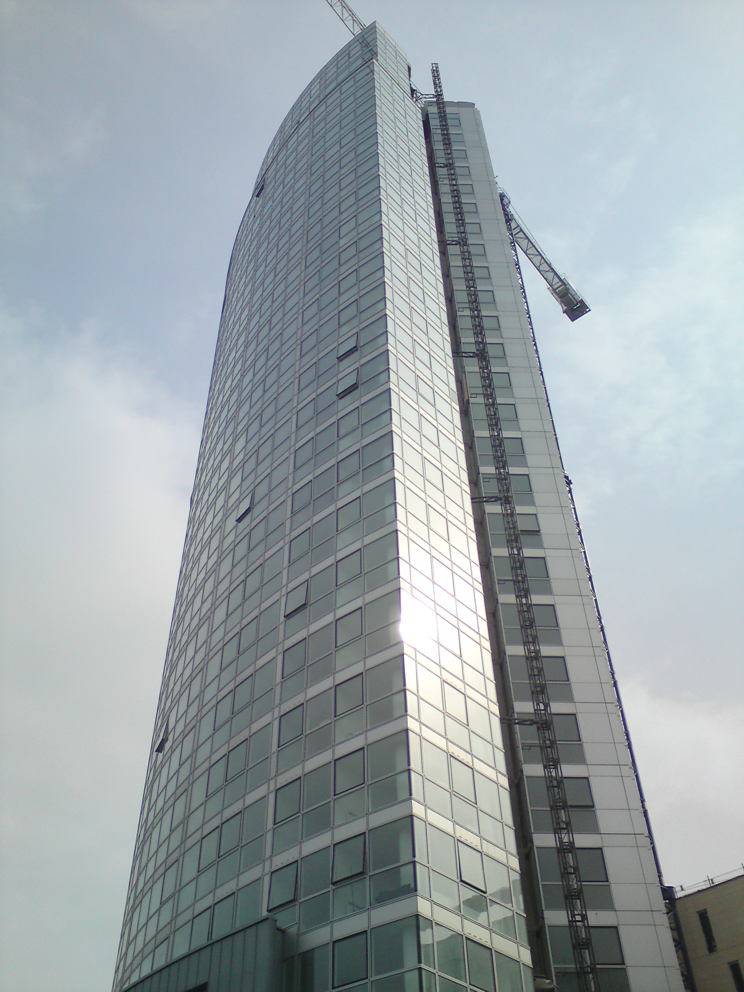 Obel Tower, belfast